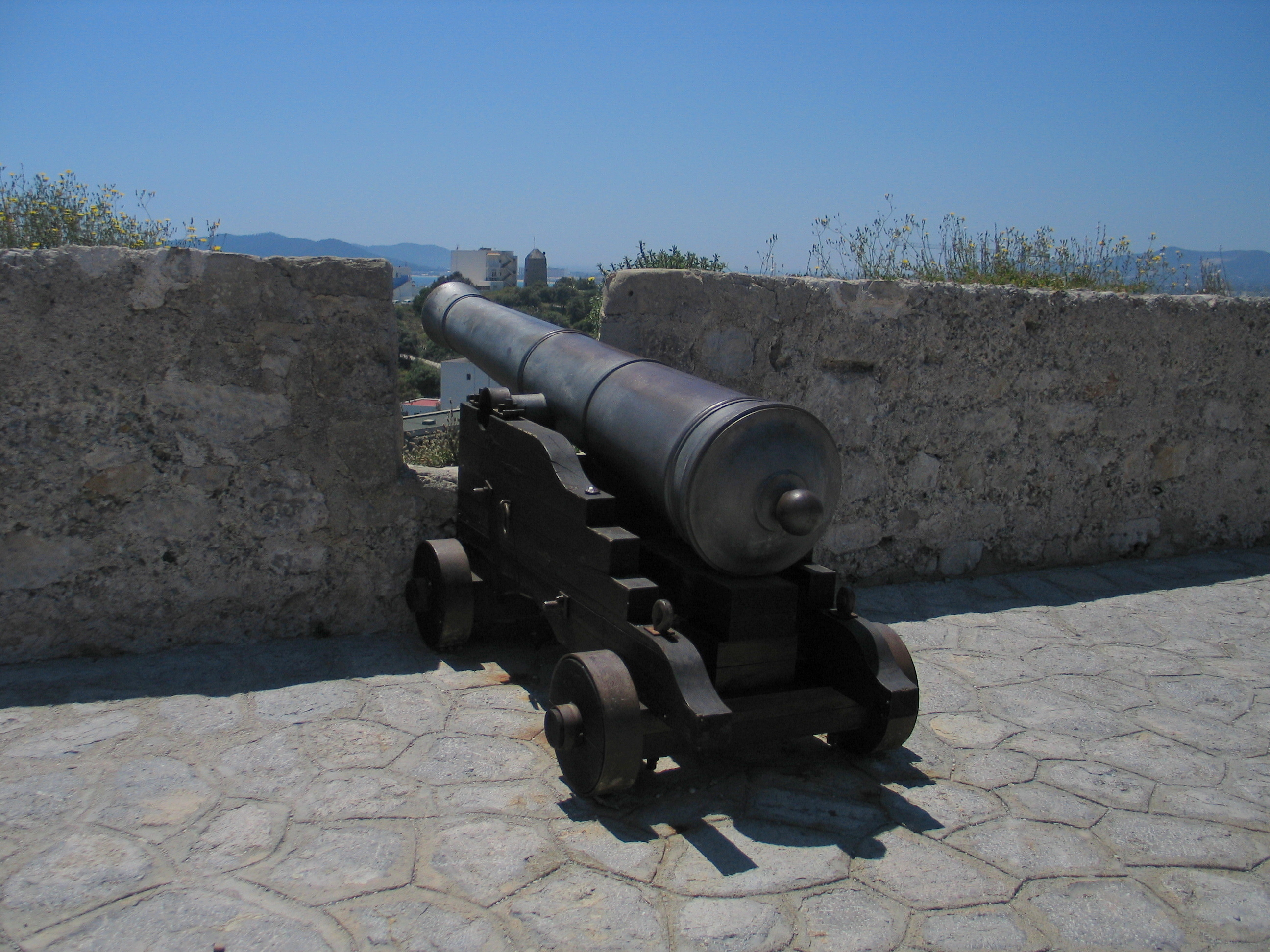 24 pounder at the remparts of Ibiza city